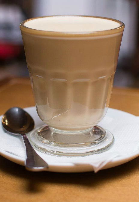 coffe raf